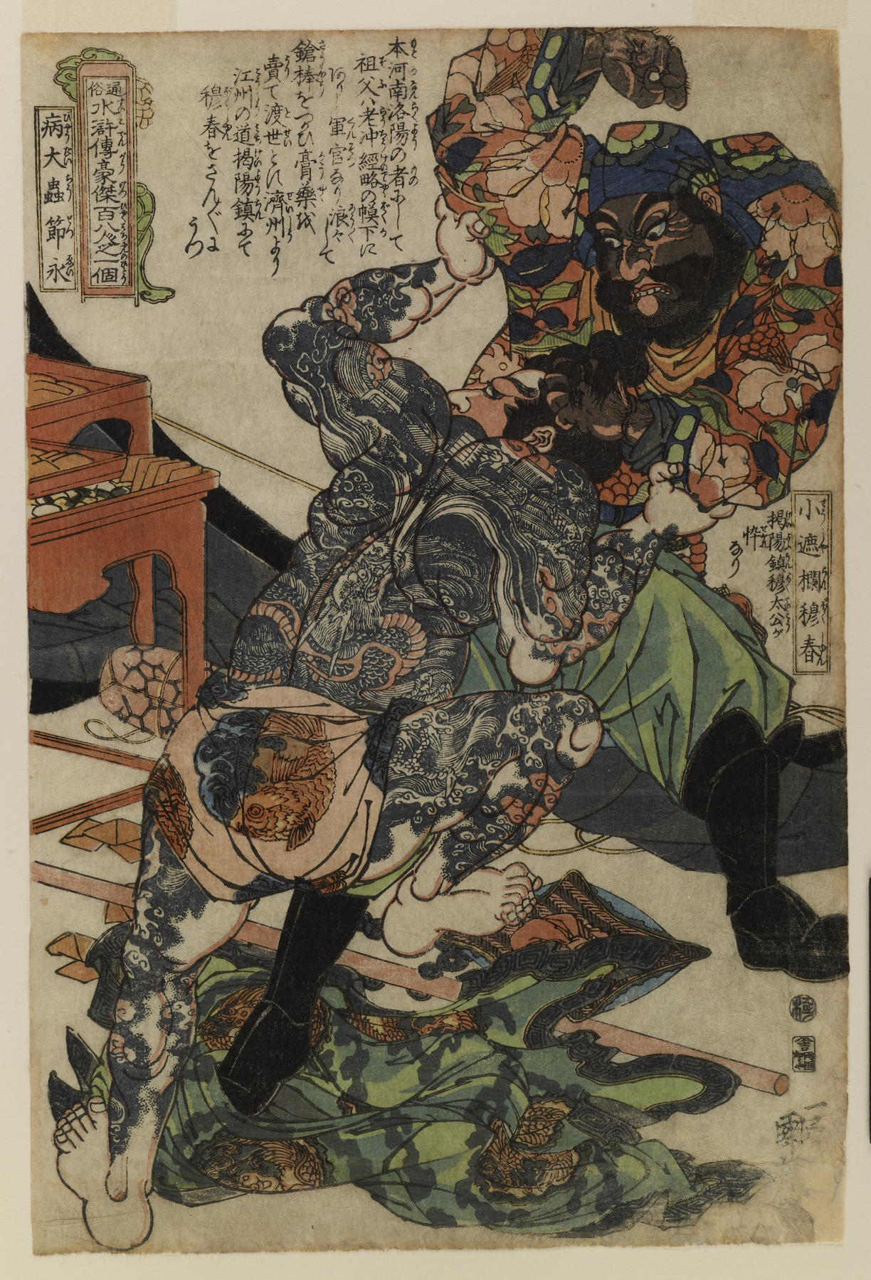 Byotaichu Setsuei, half-naked and tattooed with a dragon, fights bare-fisted with Shosharan Bokushun.